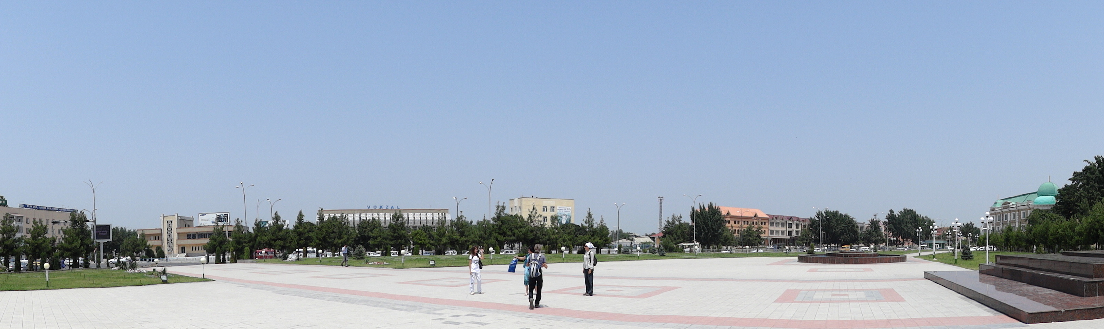 Panorama of Navoi Square (Formerly Bobur Square) - Where 2005 Massacre Took Place - Andijon - Uzbekistan - 01